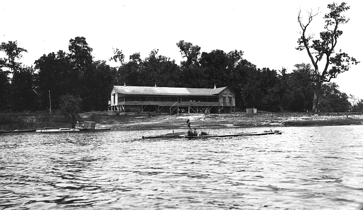 Collection: Painter (Milton McFarland, Sr.) Collection Call Number: PI/1988.0006/Box 557 Folder 1 System ID: 97306. Link to the catalog From Moon Lake, front of fishing club house. Please see our profile page for information on ordering. Scanned as tiff in 2008/04/03 by MDAH. Credit: Courtesy of the Mississippi Department of Archives and History.